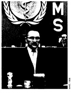 Víktor Mijáilovich Zhdanov at 1958 in the OMS